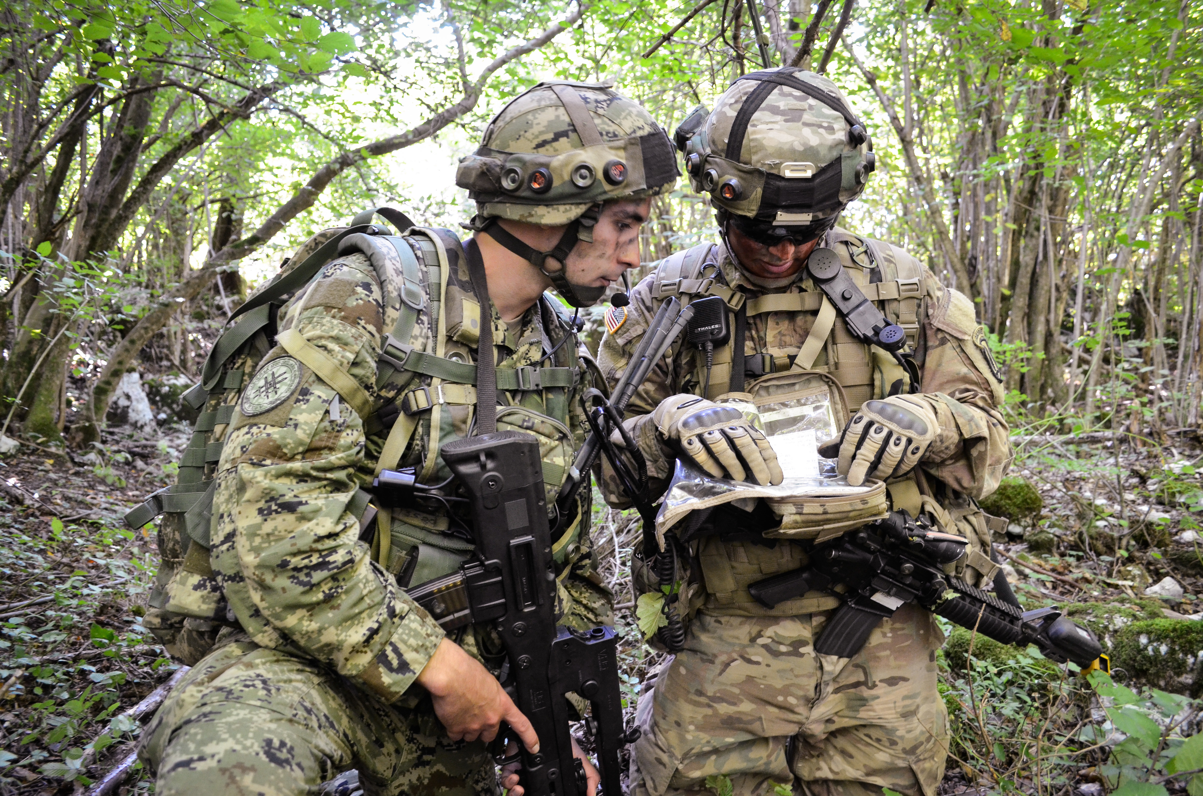 A Croatian Army Soldier works with a U.S. Army Soldier from the 173rd Airborne Brigade in a situational training lane during Immediate Response 15 in Slunj, Croatia. Immediate Response 15 is a multinational, brigade-level, Command Post Exercise utilizing computer assisted simulations and field training exercises in Croatia and Slovenia.The exercises and simulations are built upon a decisive action based scenario and are designed to enhance regional stability, strengthen partner capacity and improve interoperability.